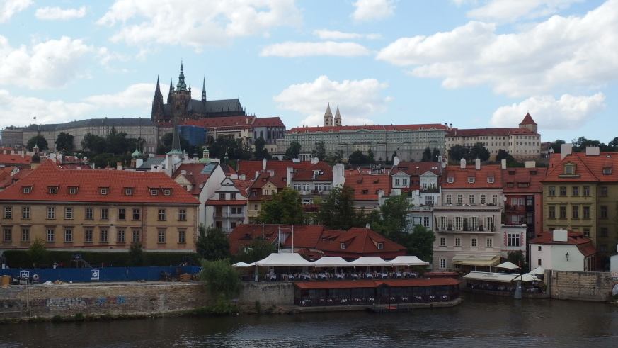 of Charel's bridge